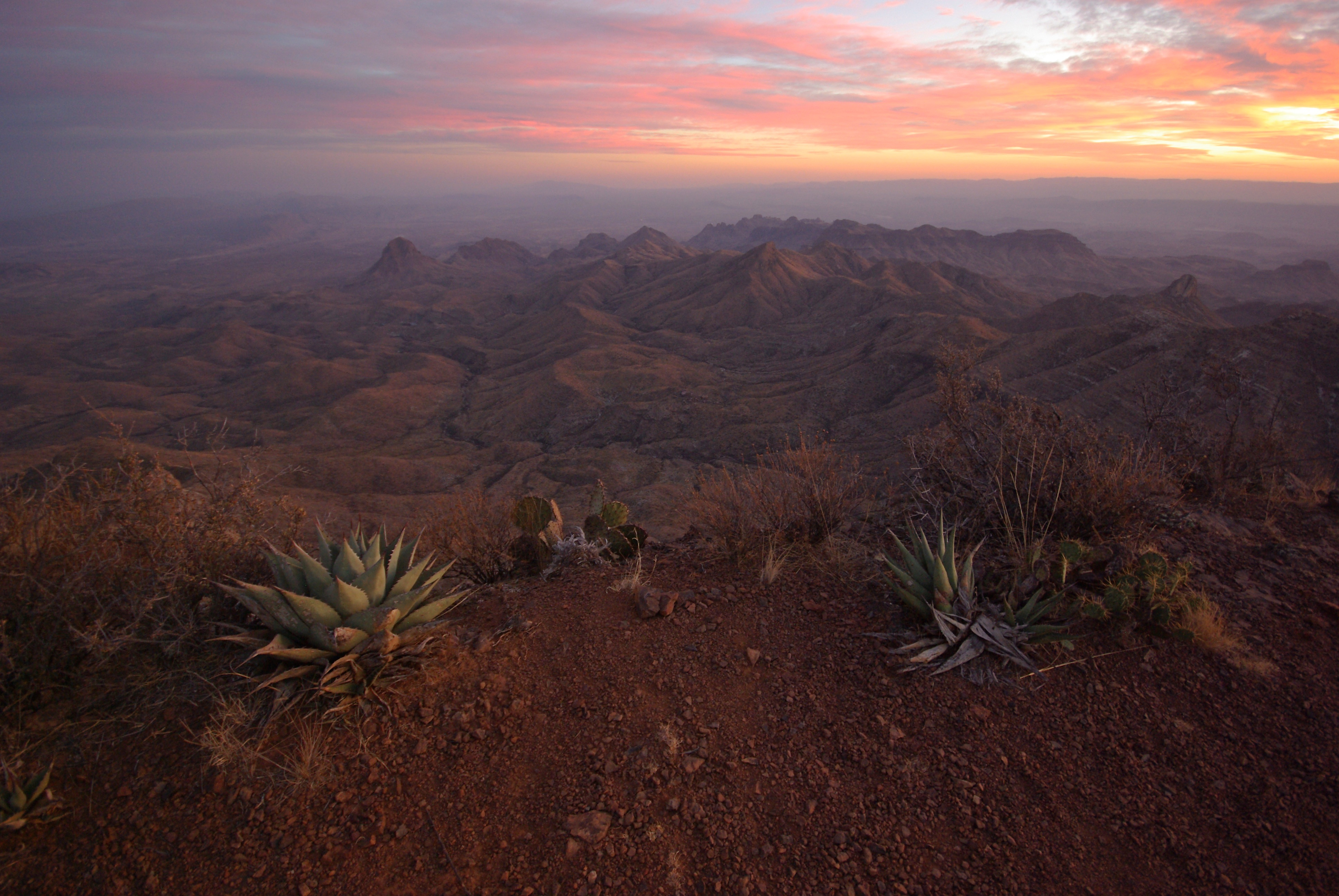 Big Bend South Rim, sunset. Every time I'm on the South Rim, I look for two specific cacti which were on the following cover of "The Economist." Haven't found them yet.